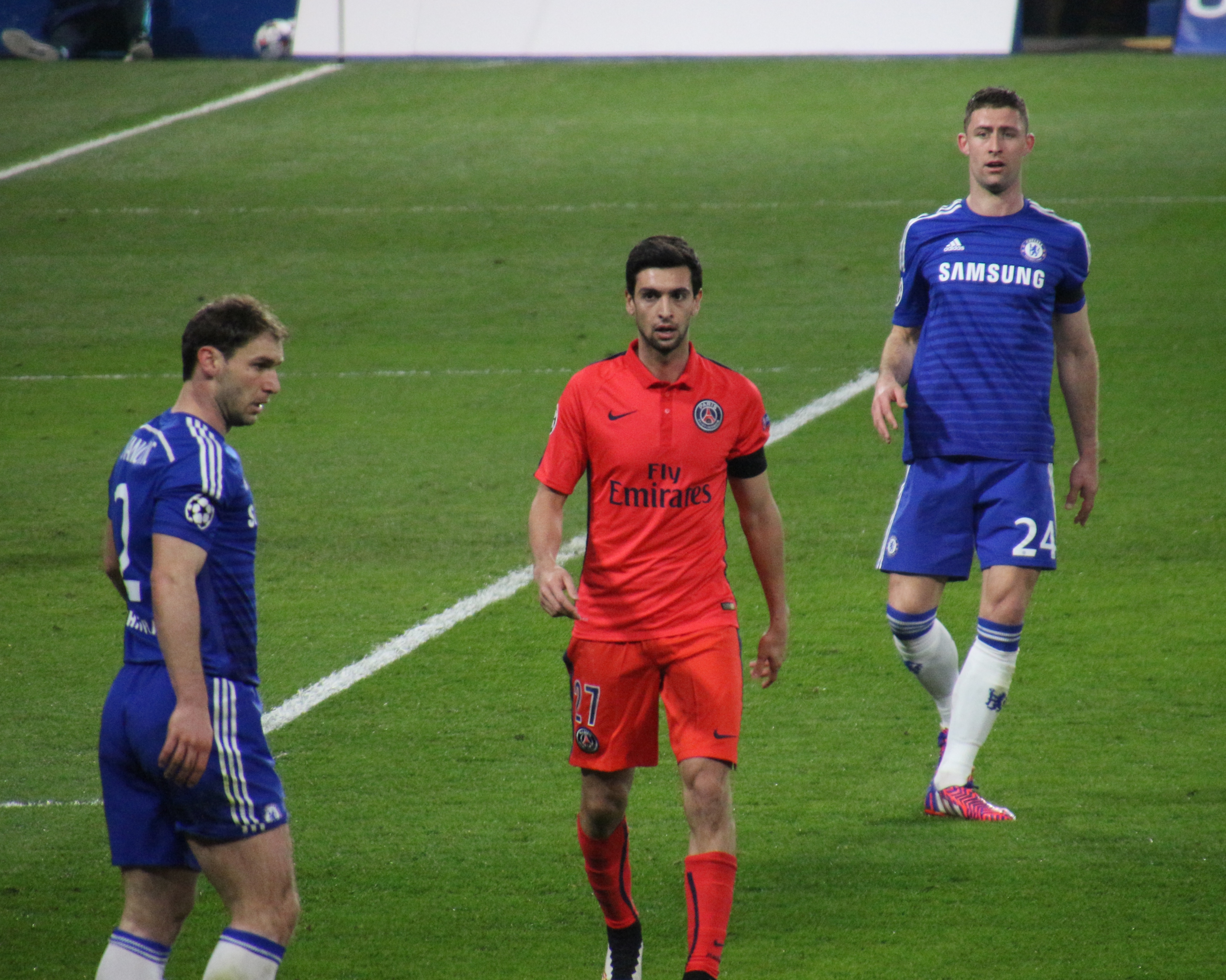 Chelsea 2 PSG 2 (Agg 3-3)